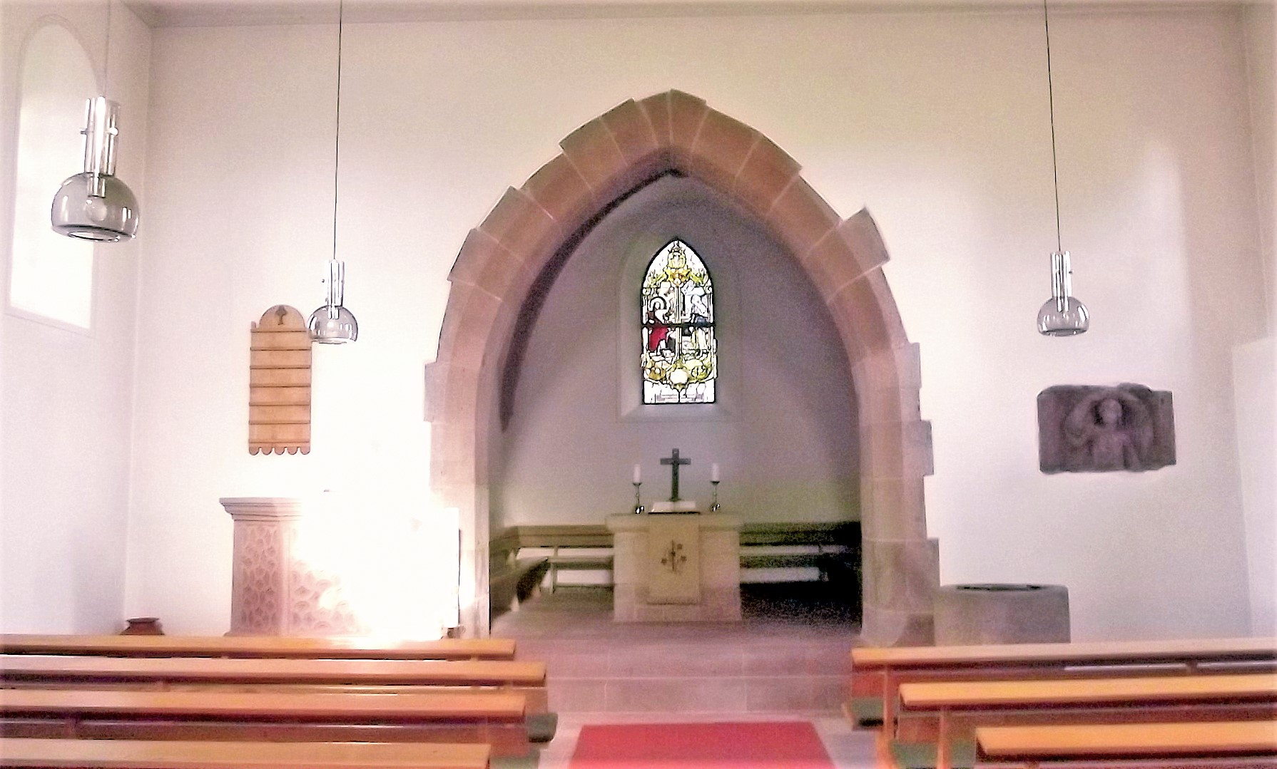 Interior of the protestant church in Dörrenbach, Saarland, Germany